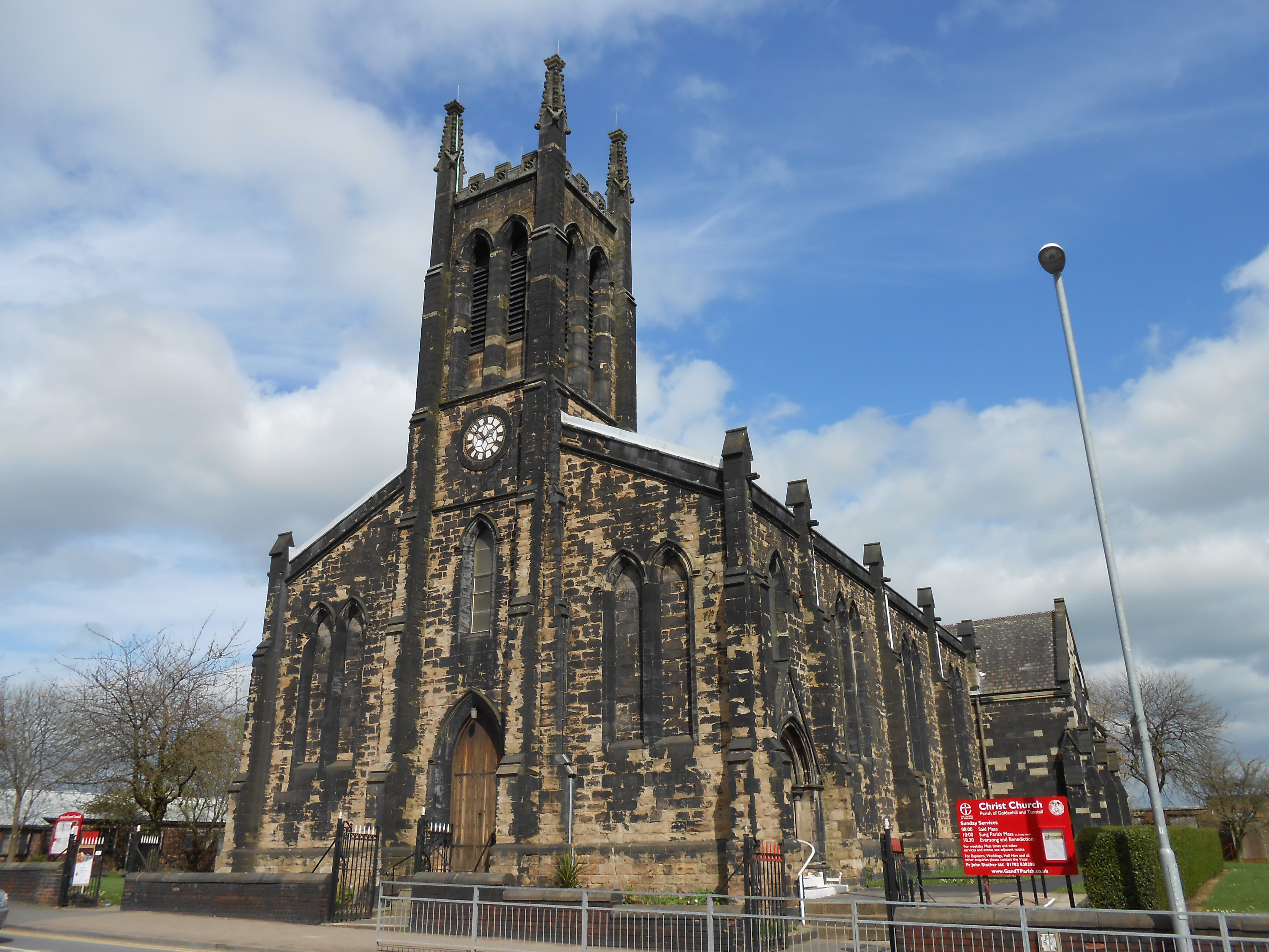 Christ Church, Tunstall, Stoke-on-Trent.